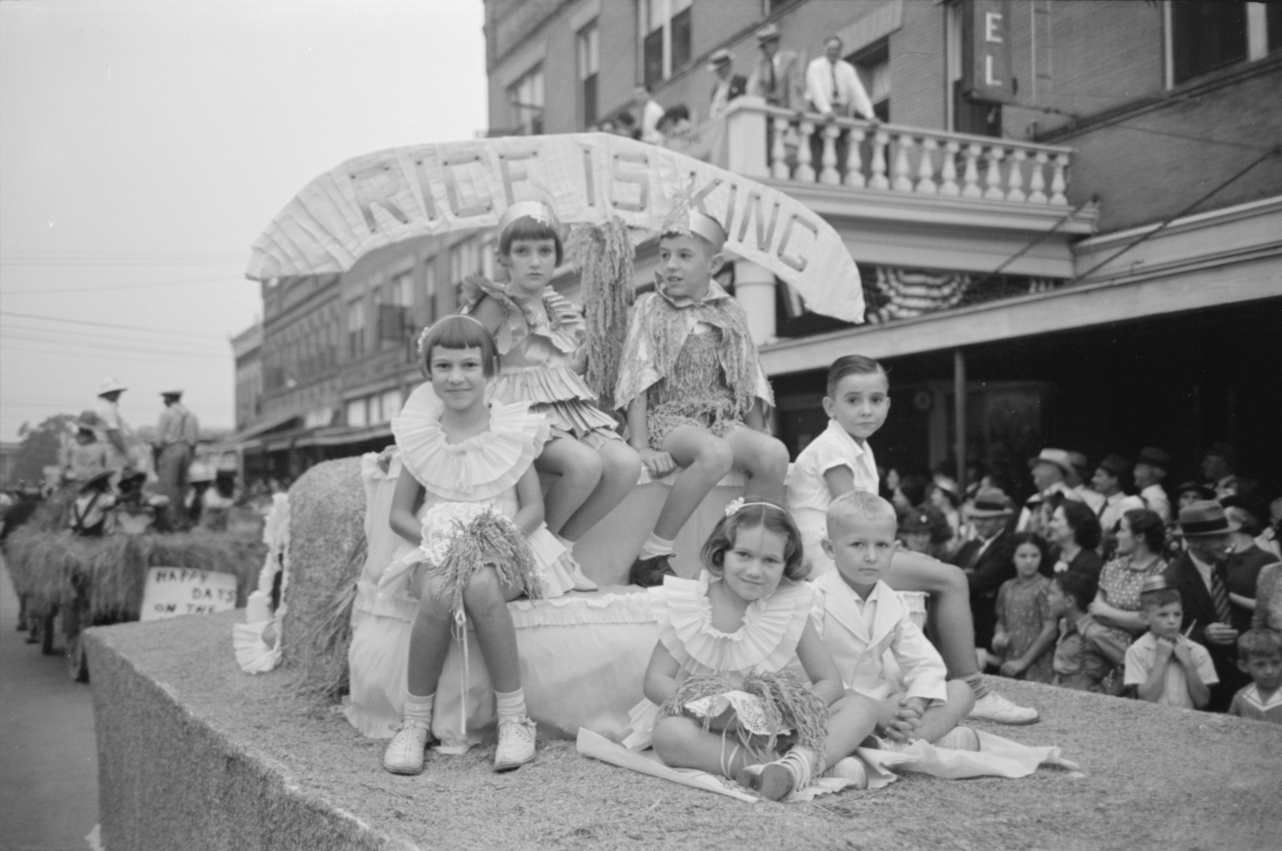 Children on parade float with inscription "Rice Is King", National Rice Festival, Crowley, Louisiana., 1938.